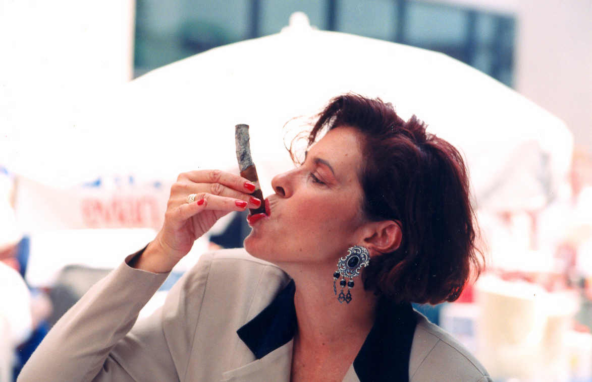 Cigar smoking on the Liberty Festival of Bastille Day at Les Halles, Washington DC, USA. 14th June 1997.06.02.Bastille.LesHalles.WDC.14jul97